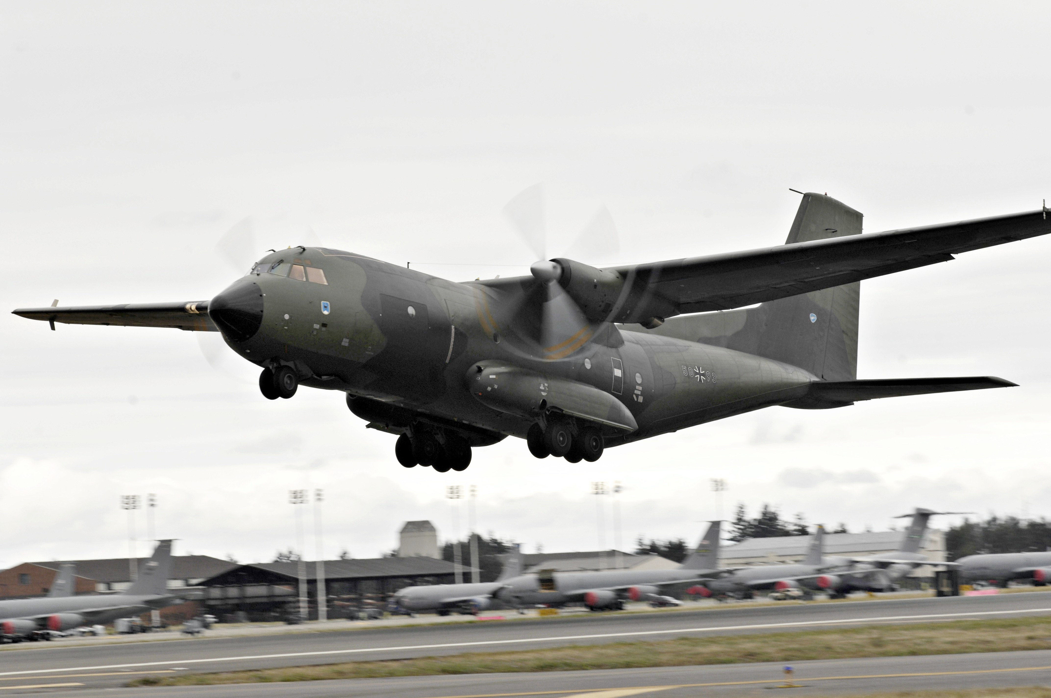 A German C-160 Transall (s/n 50+93) aircraft of the Lufttransportgeschwader (LTG) 61 (61st Transport Wing) from Landsberg, Bavaria (Germany), takes off during the Rodeo 2007 excercise from McChord Air Force Base, Washington (USA), on 23 July 2007. The exercise, hosted by USAF Air Mobility Command, was a readiness competition for U.S. and international mobility air forces focused on improving war fighting capabilities.